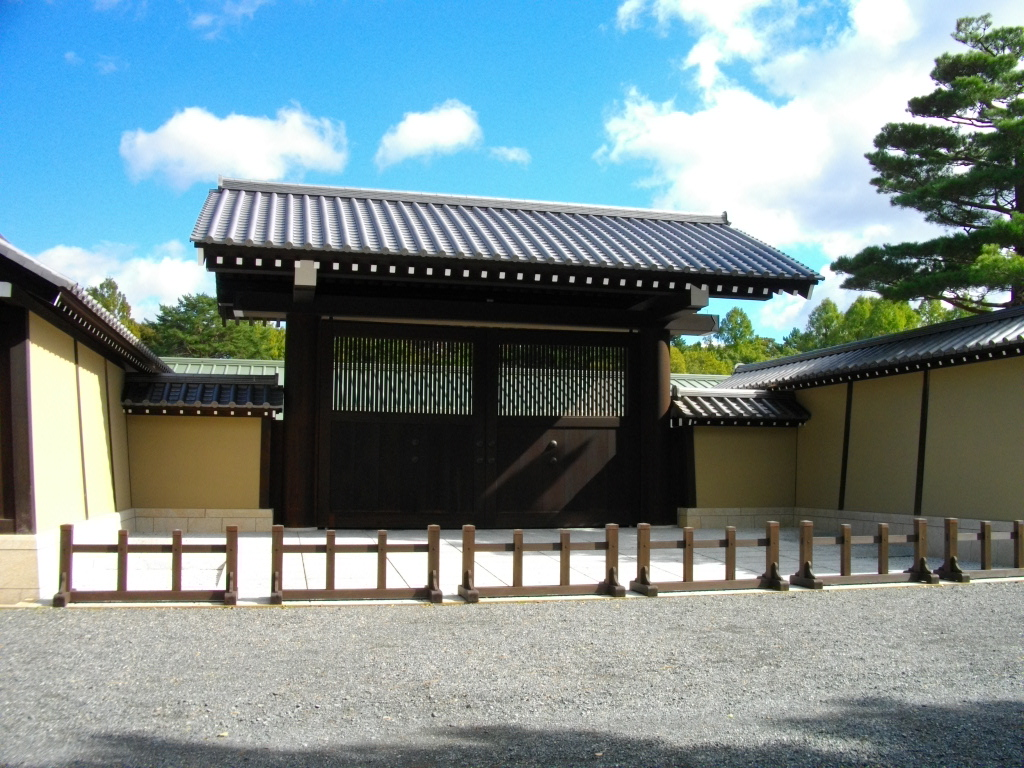 Kyoto State Guest House Main Gate